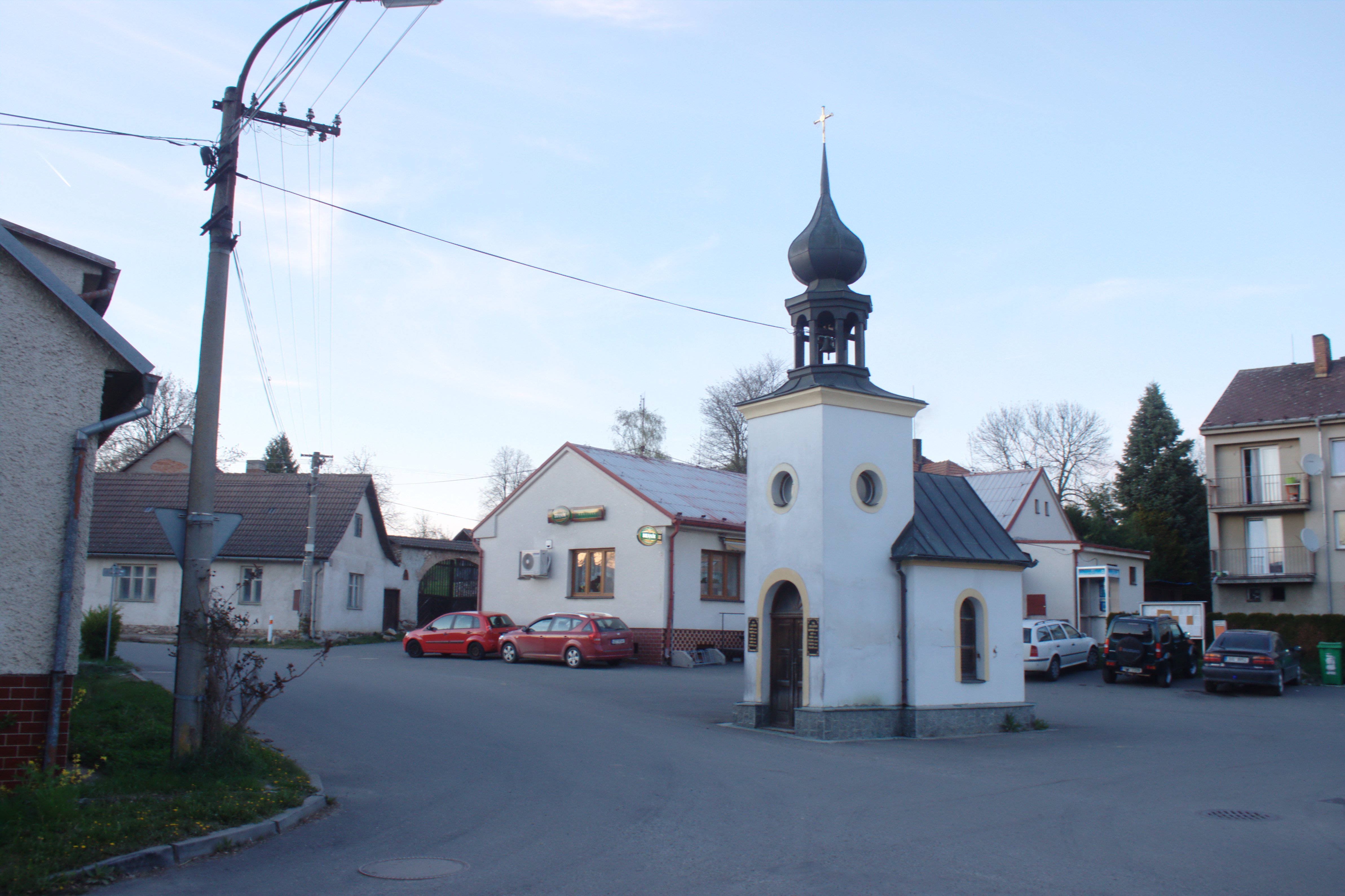 This photograph was created as a part of Wikiexpedition Mladá Vožice, a project supported by Wikimedia Foundation grant.